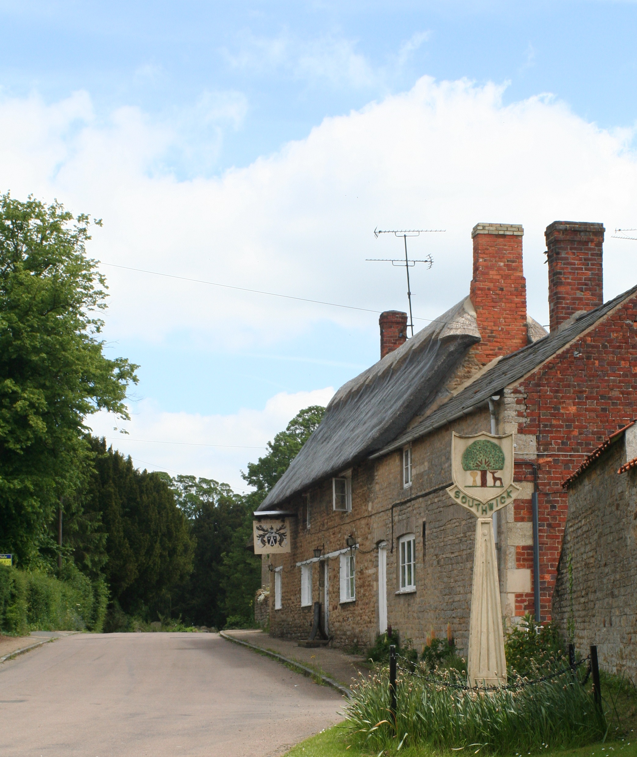 the pub at Southwick Northants - picture by R Neil Marshman (c) - see metadata